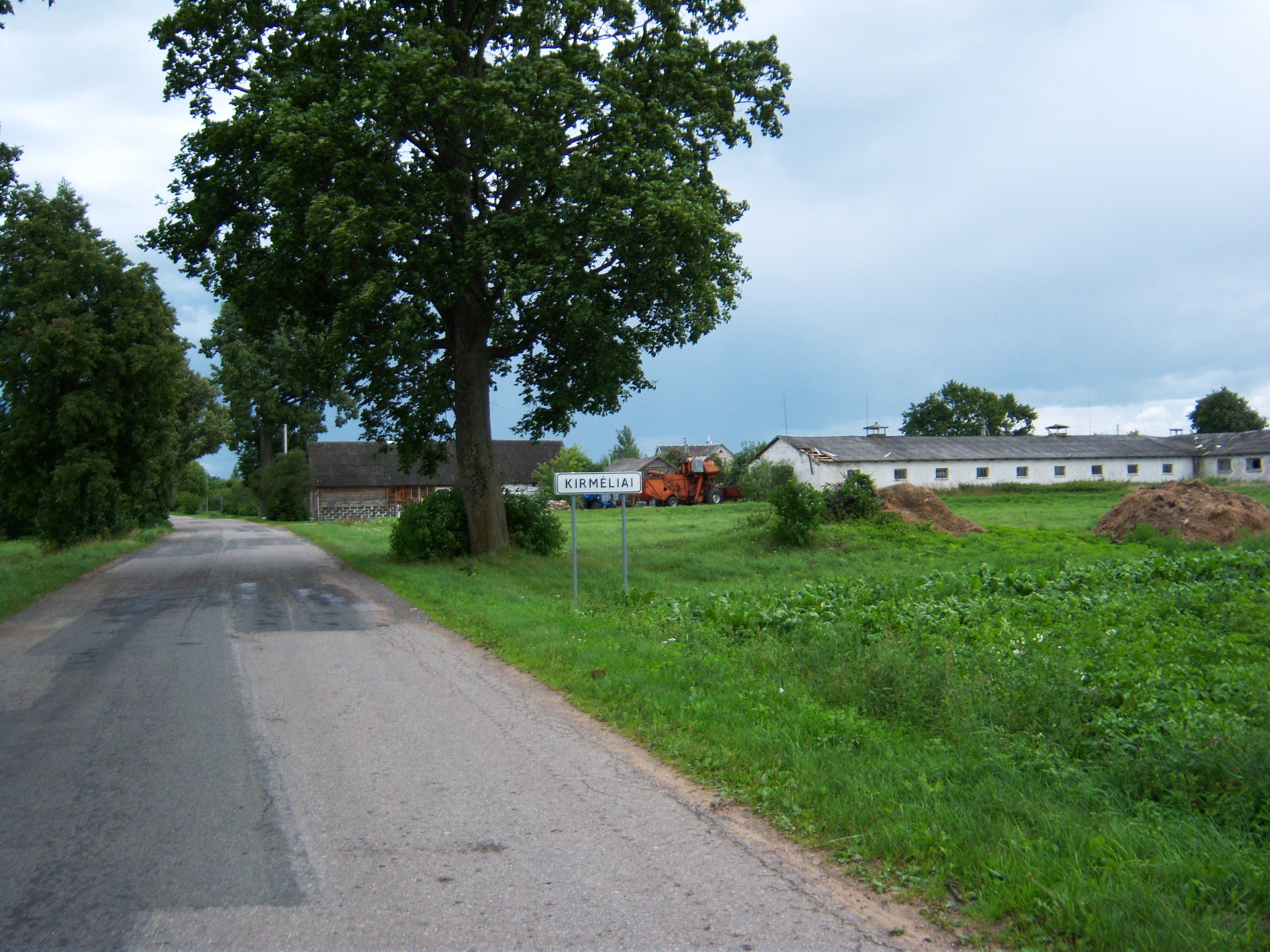 Kirmėliai, Anykščiai District. Lithuania